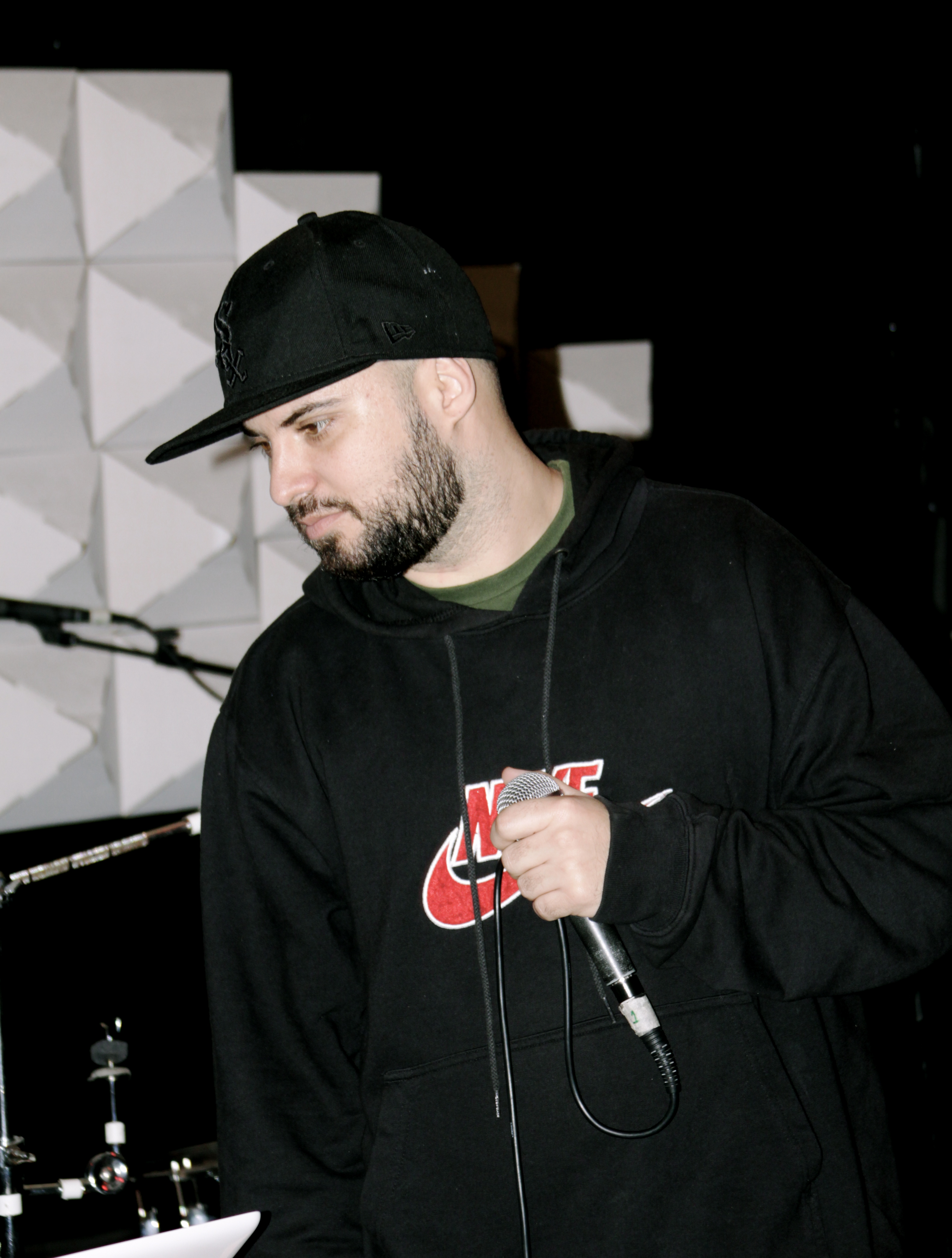 Me in the concert.